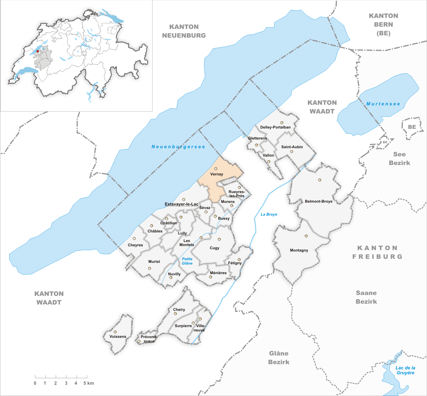 Municipality Vernay